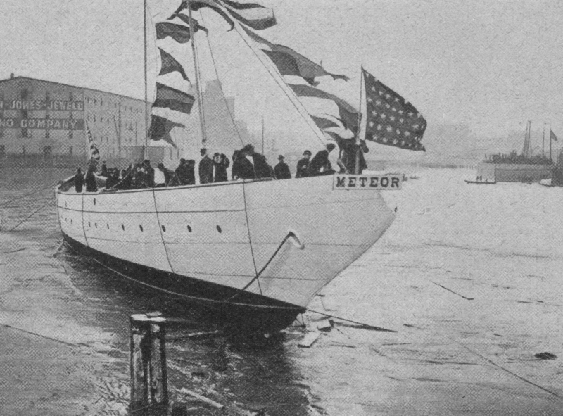 Yacht Meteor launched in New York.